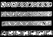 Differential-interferograms of Rayleigh-Bénard convection in a horizontal fluid layer for increasing Rayleigh numbers